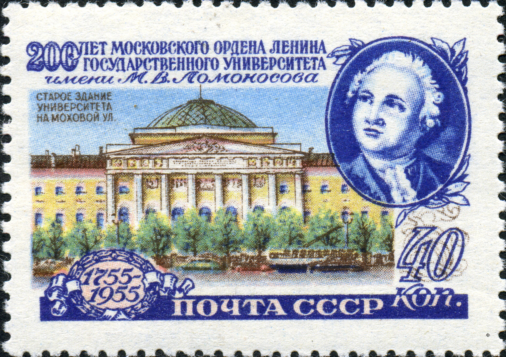 Stamp of the USSR. 200th anniversary of Moscow State University. Portrait of Mikhail Lomonosov; building of Moscow State University on Mokovaya street. 40 copecks, multicolor.